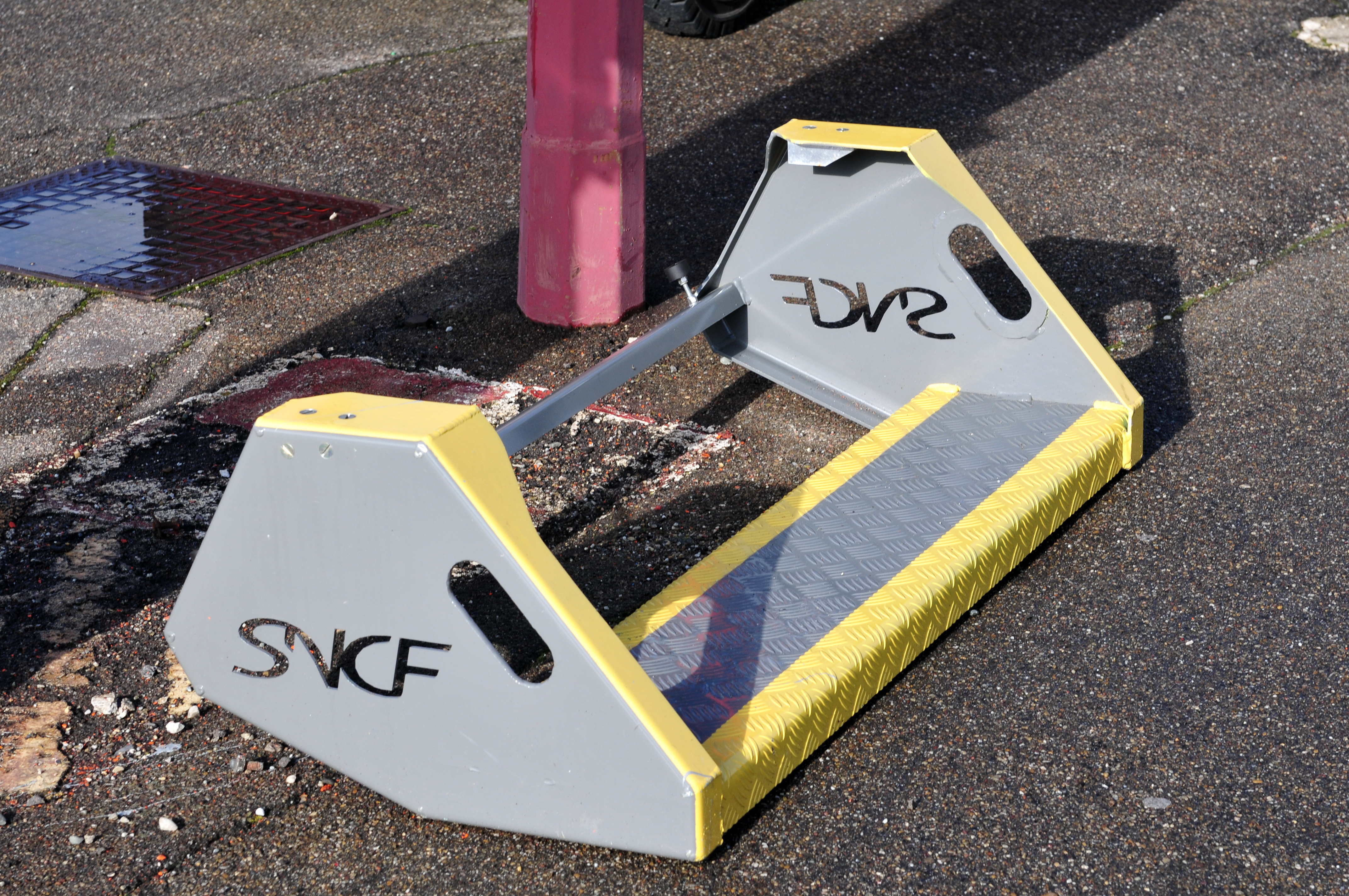 Auxiliary stage of the SNCF European Parliament 2014 3.–7. February 2014, StrasbourgThis photo has been created within the project "WIKI loves parliaments / European Parliament". Usage and Help If you have any questions concerning this picture or how to use it, feel free to